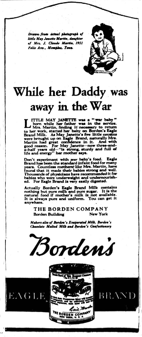 Newspaper ad for Borden's Eagle Brand milk, describing how the baby was raised during the War on Eagle Brand.